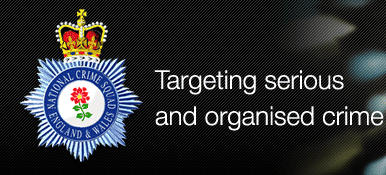 NCS Logo